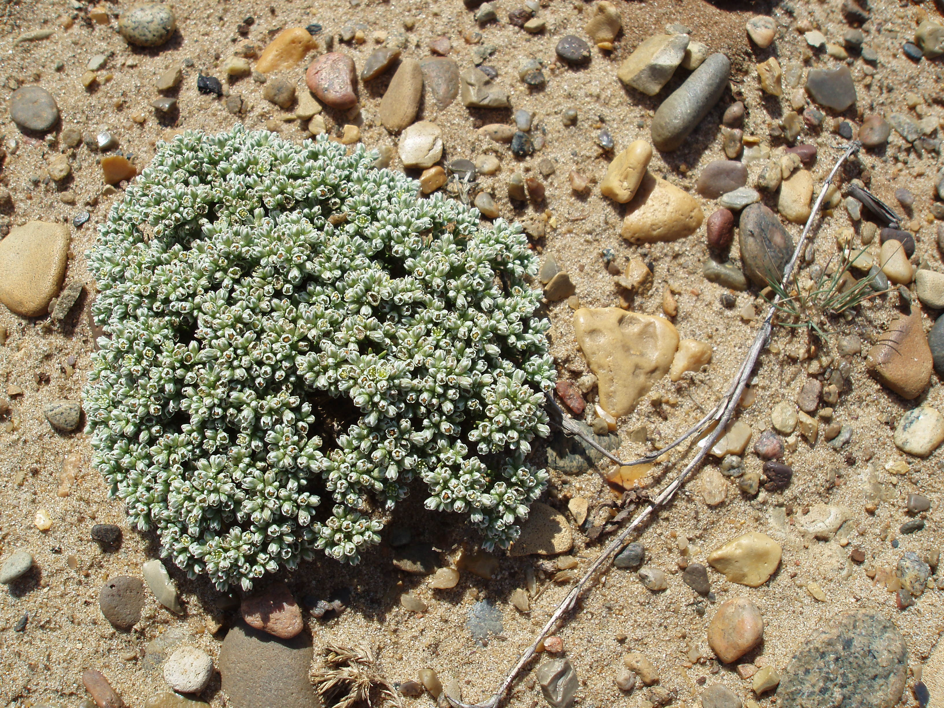 Perennial knawel (Scleranthus perennis). Found in Kandestederne in northern Jutland, Denmark.